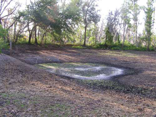 Kissingen Spring area, taken in 2006. Polk County, Florida. A mud puddle overlies the clay-filled spring vent of Kissengen Spring. Increase in groundwater use resulted in cessation of flow.